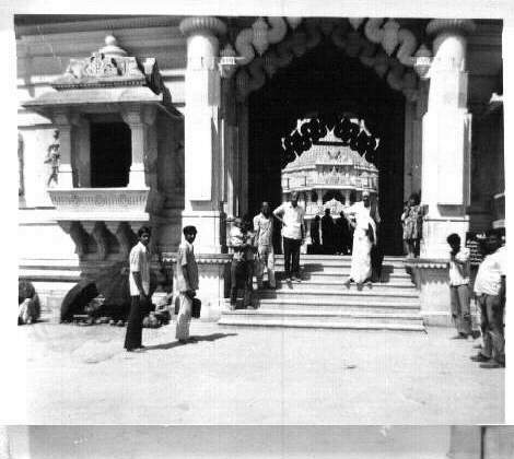 Photo taken by me using B & W film camera.Photo shows Dakore_temple-View2.